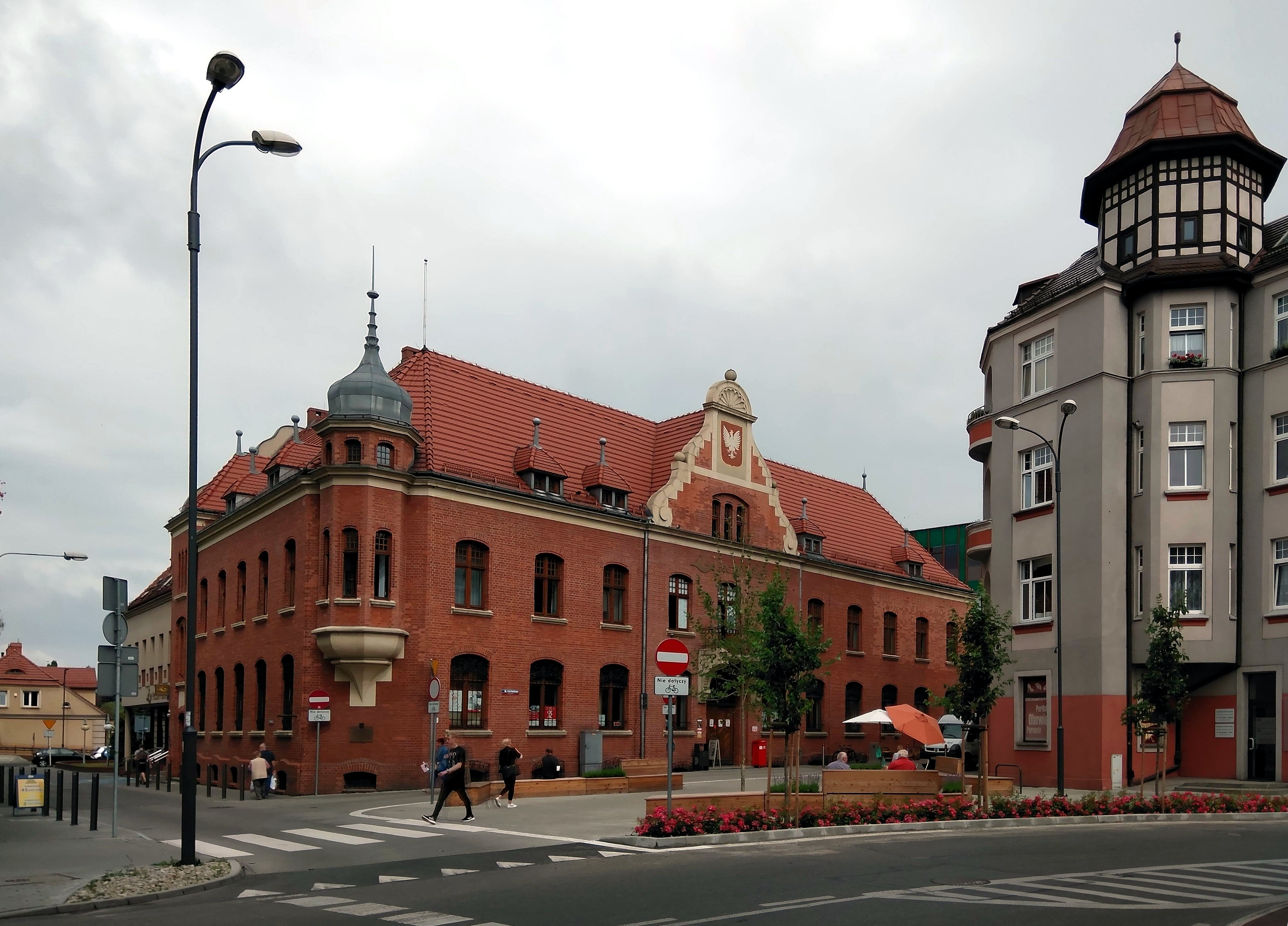 Main post building in Rybnik, Upper Silesia, Poland